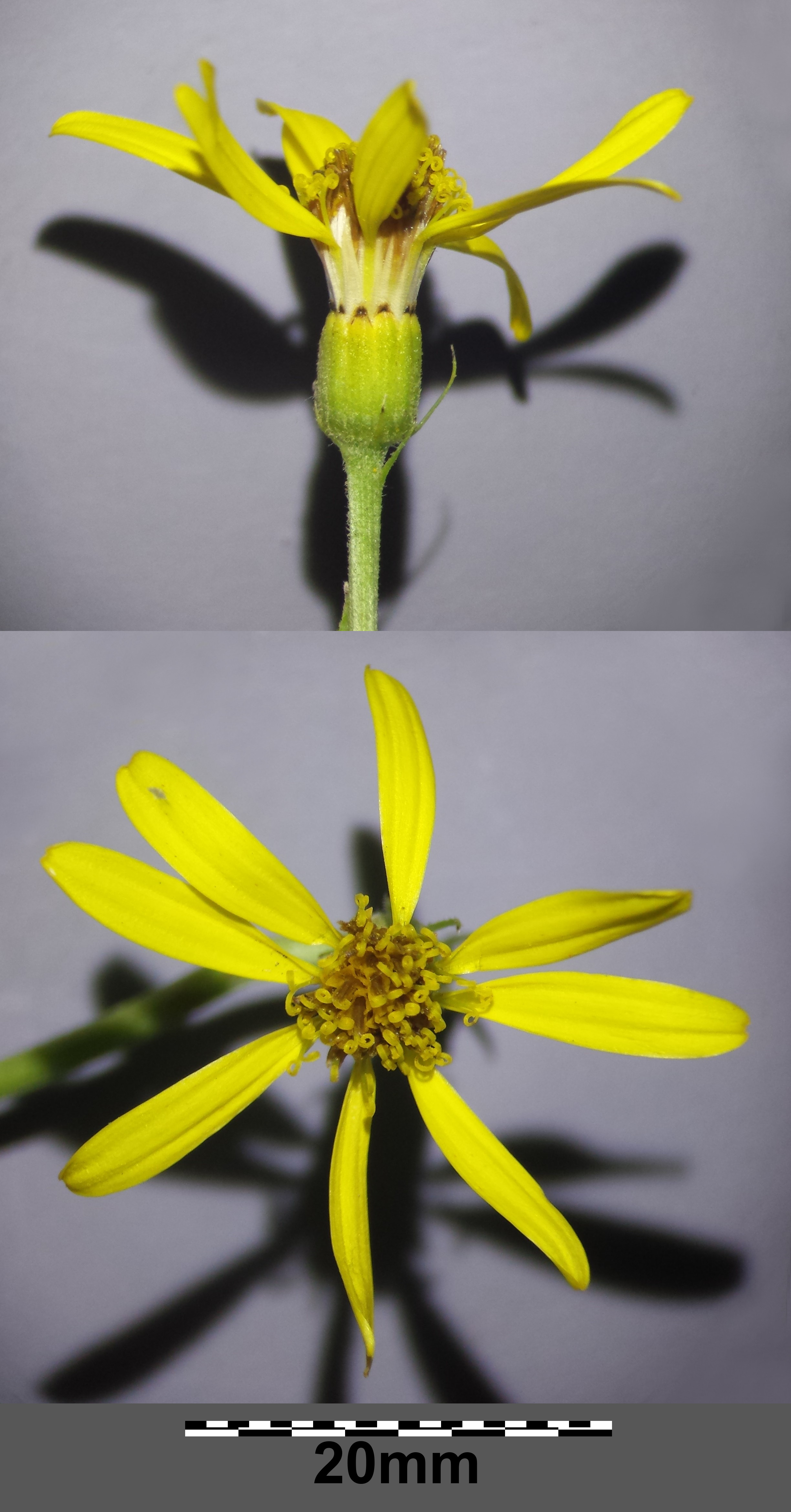 Flower basket Taxonym: Senecio sarracenicus ss Fischer et al. EfÖLS 2008 ISBN 978-3-85474-187-9 Location: Neue Donau, Vienna-Floridsdorf - ca. 160 m a.s.l. Habitat: shore